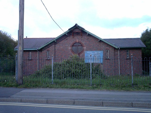 Saint Anne's Church, Cefn-Hengoed.